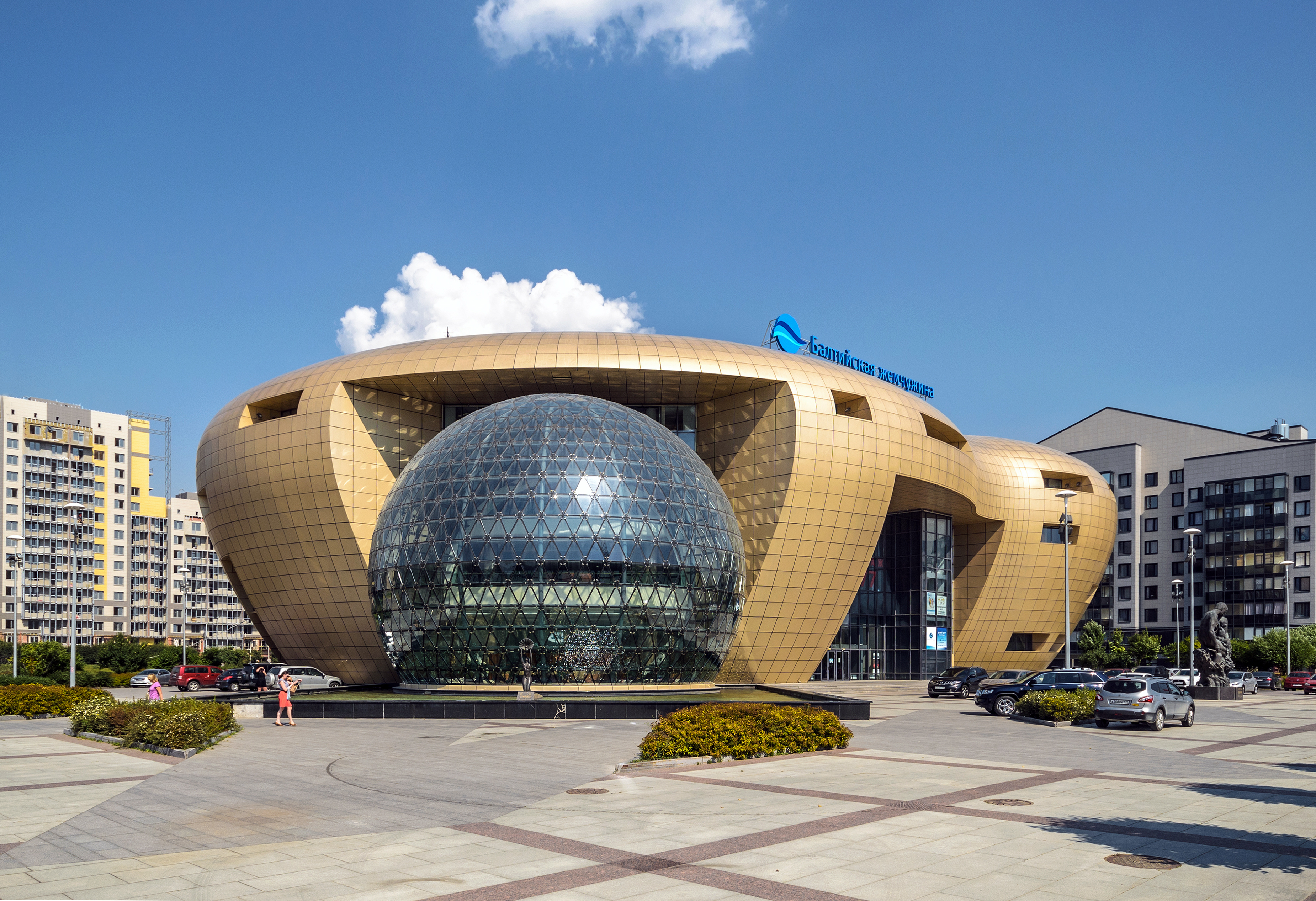 Baltic Pearl Centre in Saint Petersburg